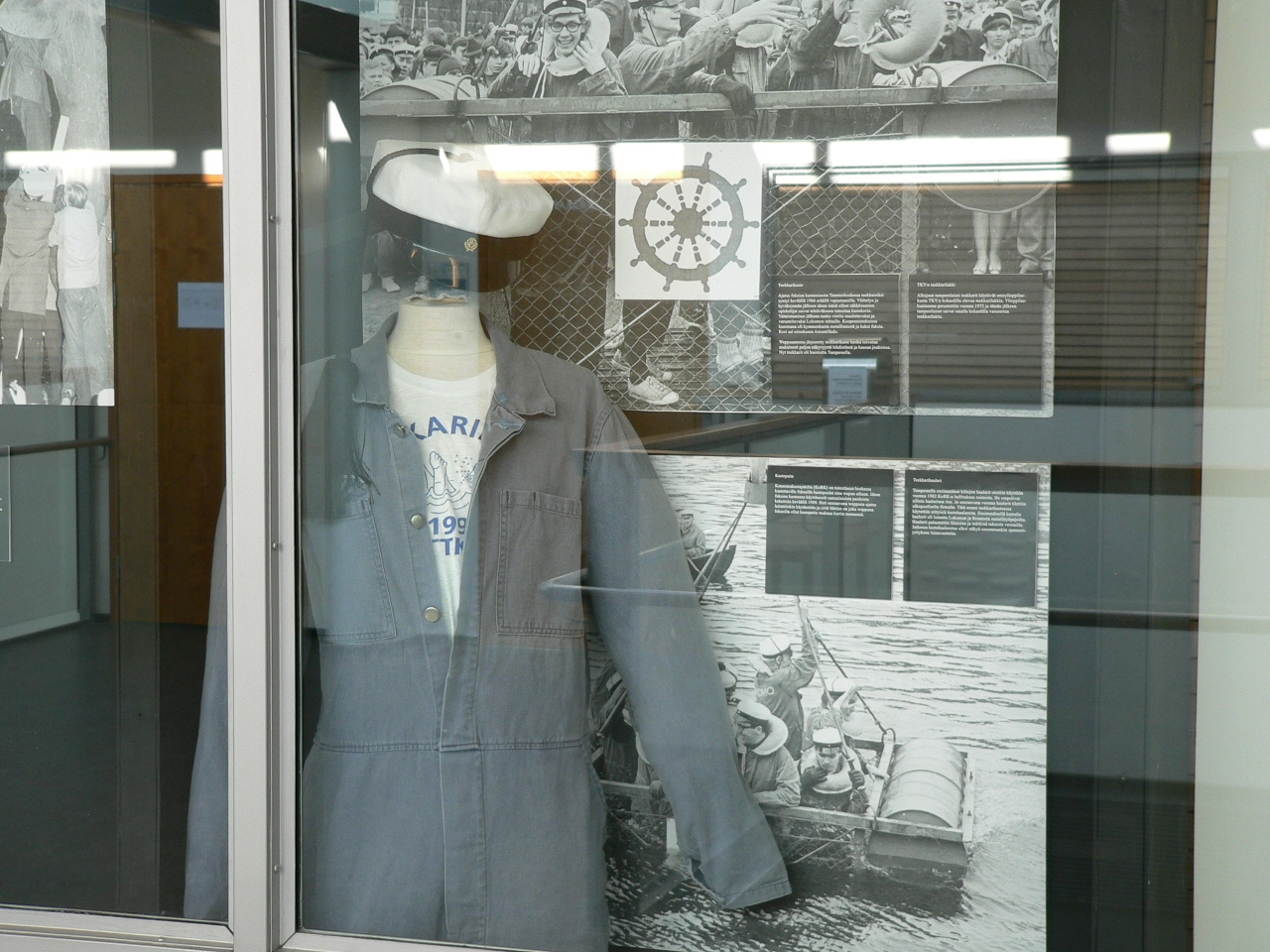 Part of the exhibition of the history of the Tampere University of Technology. It is show an old fashion university overall and pictures about the initiation, when the new students are taking in to the Tammerkoski river.